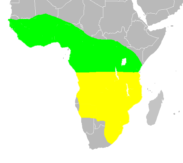 Approximate range map for the African Crake (Crex egregia) Yellow - Breeding summer visitor Green - Resident year-round Own work, mapping based on Commons file File:BlankMap-World-large.png using data from Taylor, Barry; van Perlo, Berl (2000) Rails, Robertsbridge: Pica, p. 317 ISBN: 1873403593.